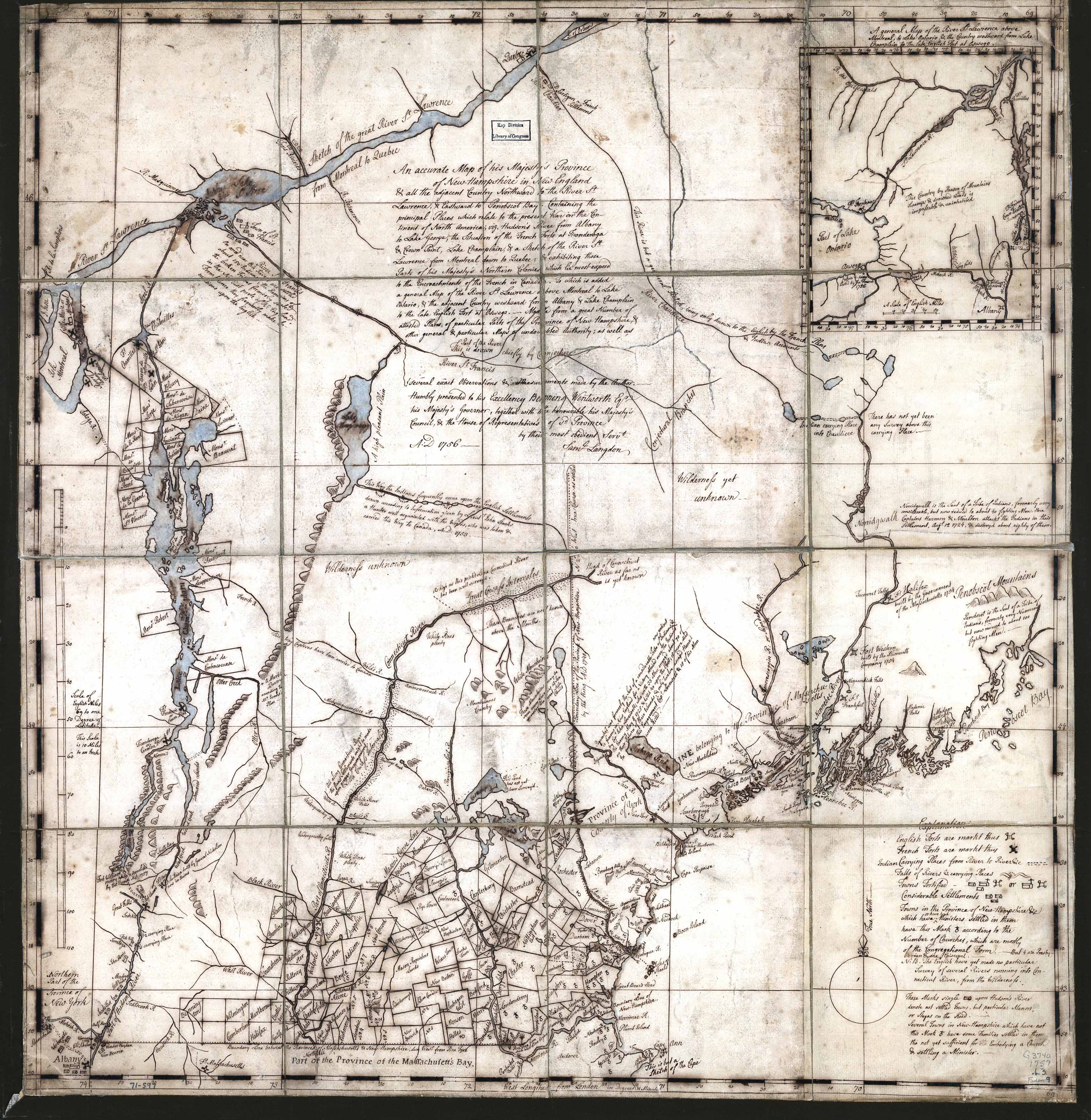 An Accurate Map of His Majesty's Province of New Hampshire in New England. 1756 Samuel Langdon; Joseph Blanchard; manuscript